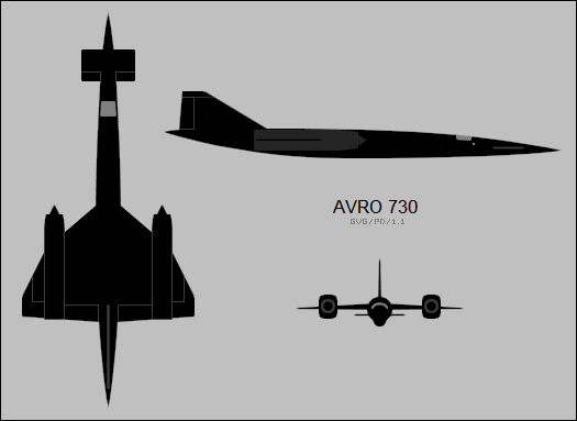 3-view silhouettes of the Avro 730 project